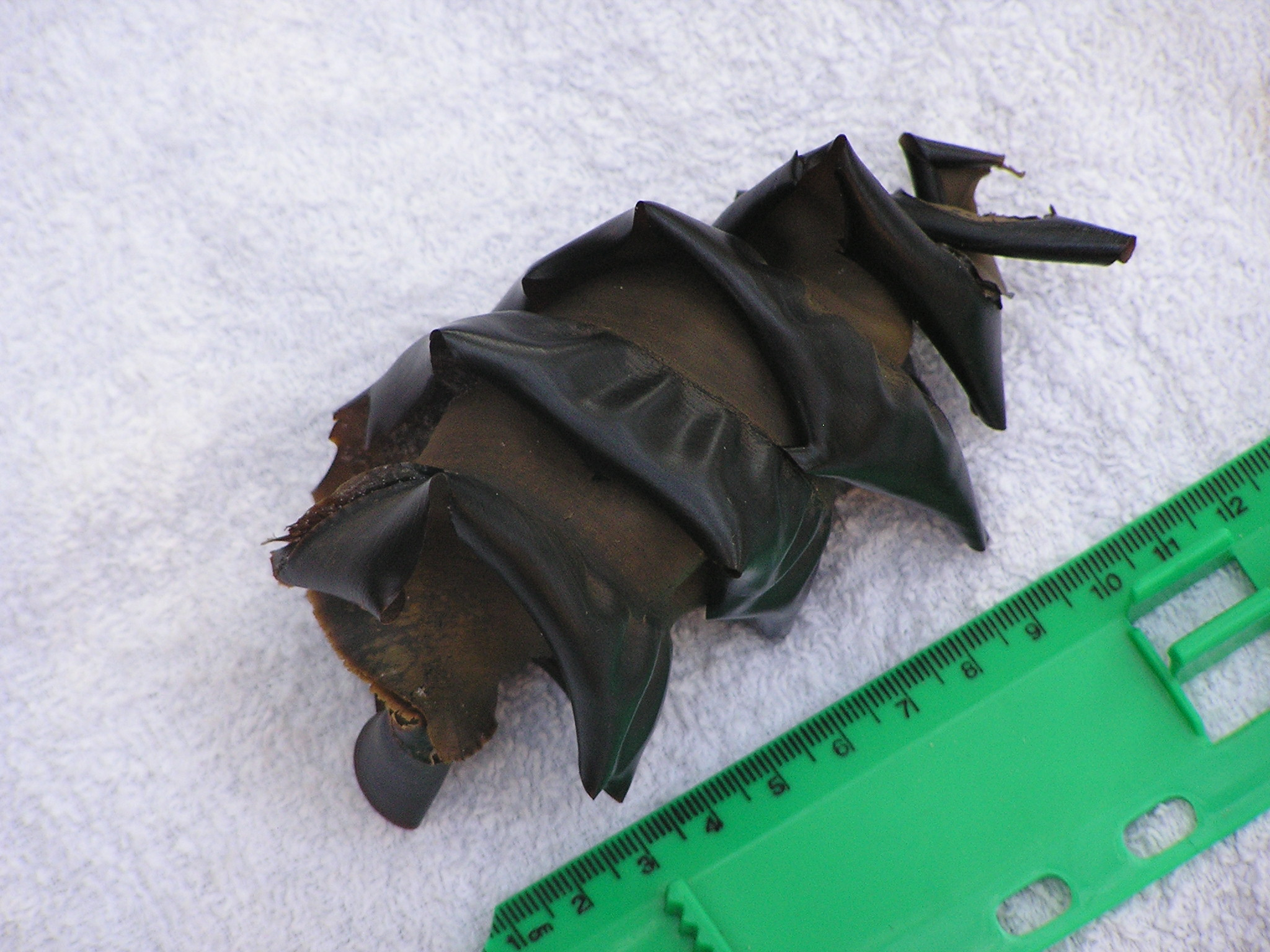 Egg case of Port Jackson shark. Egg case found on Vincentia beach, Jervis Bay Territory, Australia. Egg cases when found washed up on the beach are sometimes known as a Mermaid's purse. The screw-like helical flanges help the mother shark to secure the egg within rock crevices.